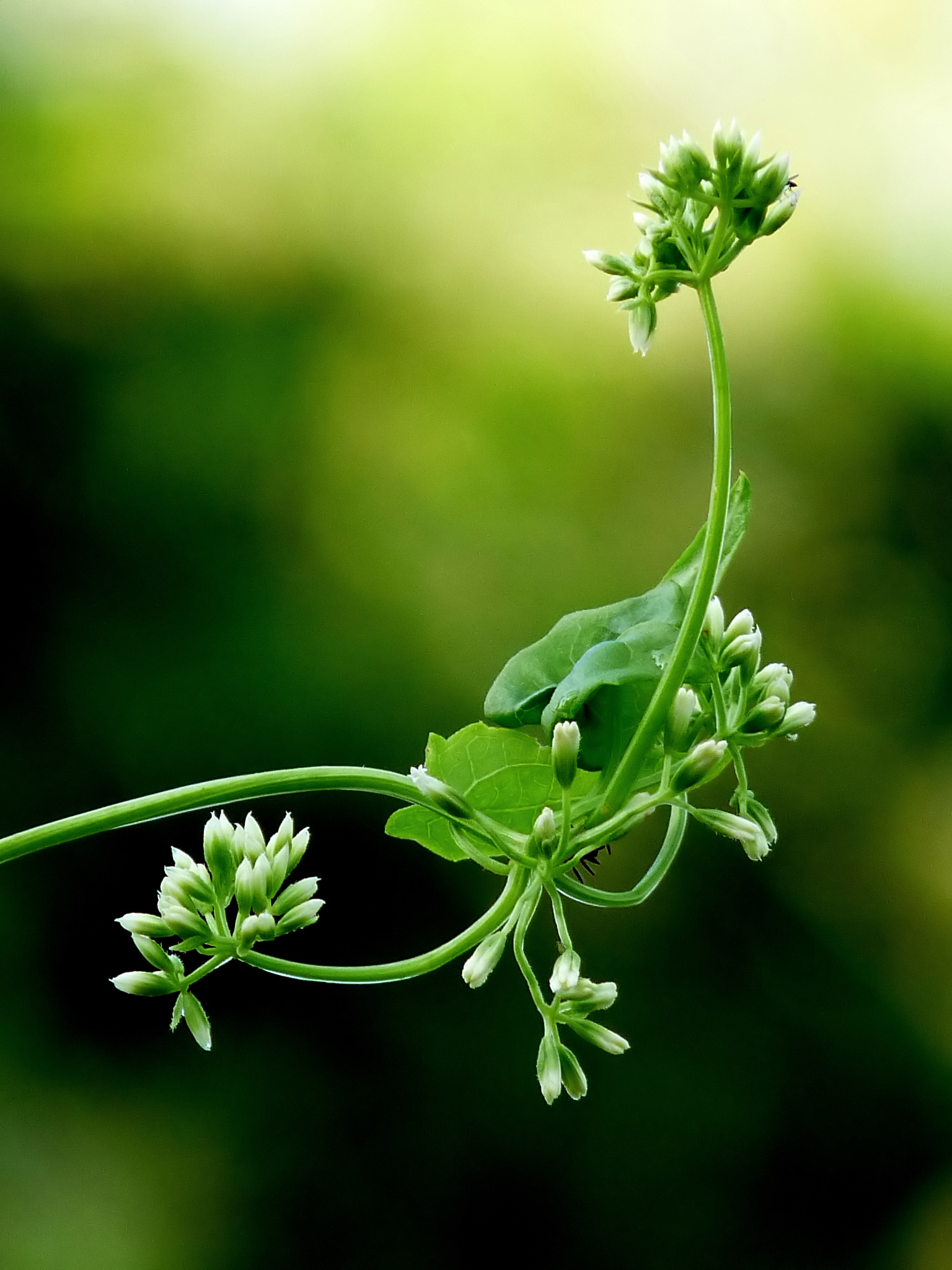 Mikania micrantha is a tropical plant in the Asteraceae family; known as Bitter Vine or Climbing Hemp Vine or American Rope. It is a vigorously growing perennial creeper that grows best in areas in high humidity, light and soil fertility, through, it can adapt in less fertile soils. The featherlike seeds are dispersed by wind. A single stalk can produce between 20 and 40 thousand seeds a season. The species is native to the sub-tropical zones of North, Central, and South America. It is a widespread weed in the tropics. It grows very quickly (as fast as 80 to 90 mm in 24 hours for a young plant) and covers other plants, shrubs and even trees. Mikania is a genus of about 450 species in the family of Asteraceae. The name honors the Czech botanist Johann Christian Mikan. Members of the genus are stem twiners and lianas and are common in the neotropical flora. Taken at Kadavoor, Kerala, India.